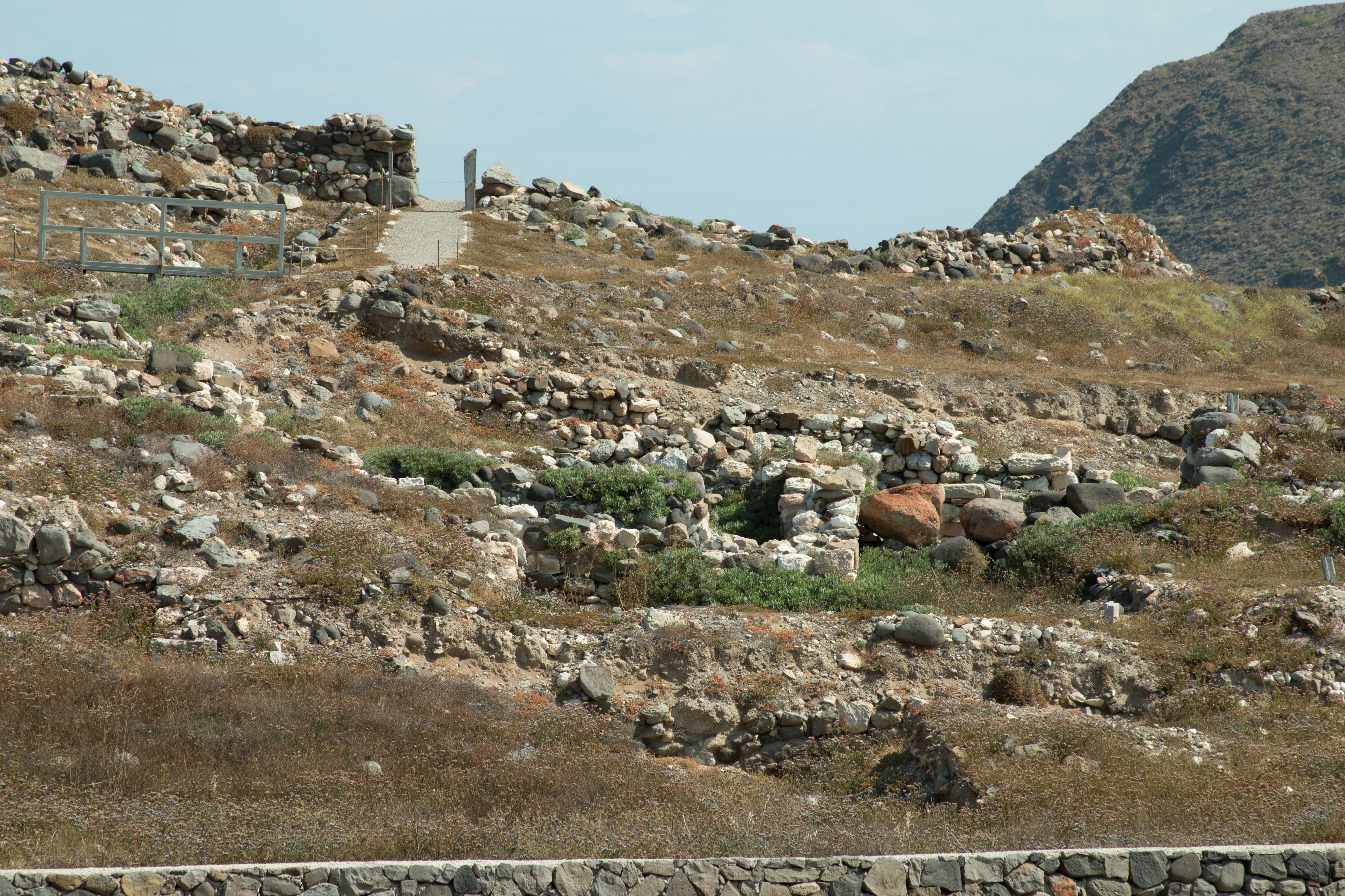 Phylakopi archaeological area, view from the south, therefore from inland (7).